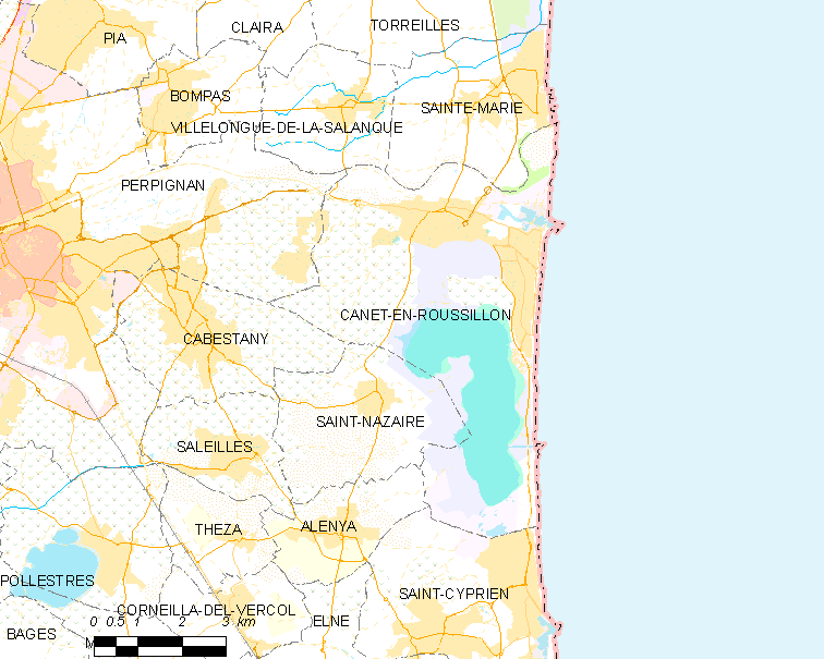 Map of French municipality